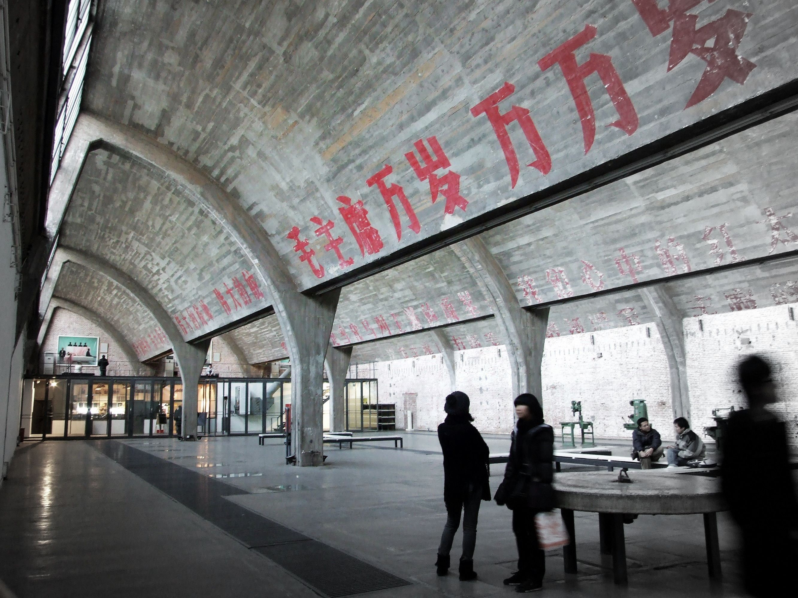 exhibition centre in 798 zone. 中文（中国大陆）: 798艺术区主展厅